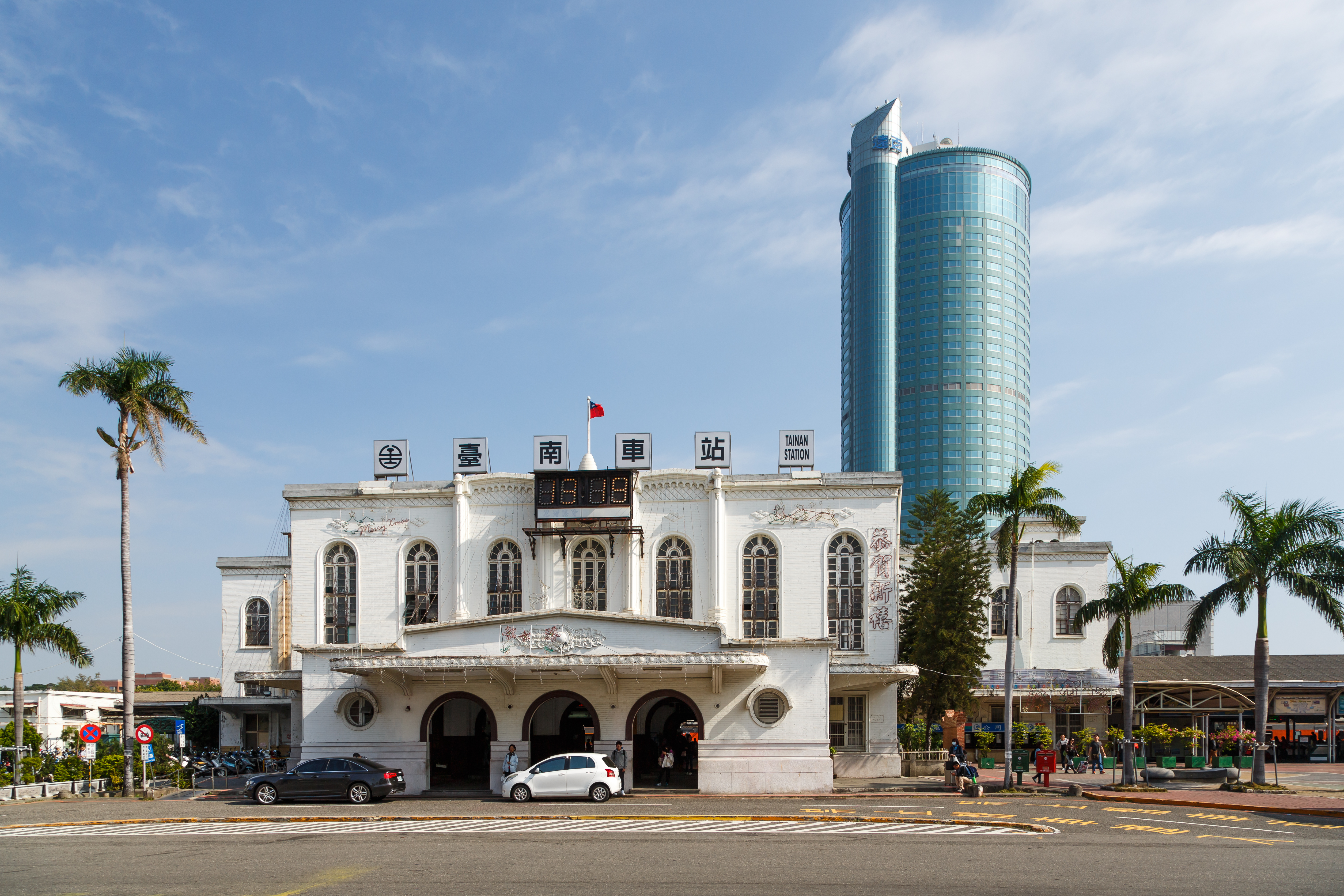 Tainan, Taiwan: TRA Tainan Station (front) and Shangri-La's Far Eastern Plaza Hotel Tainan (rear).